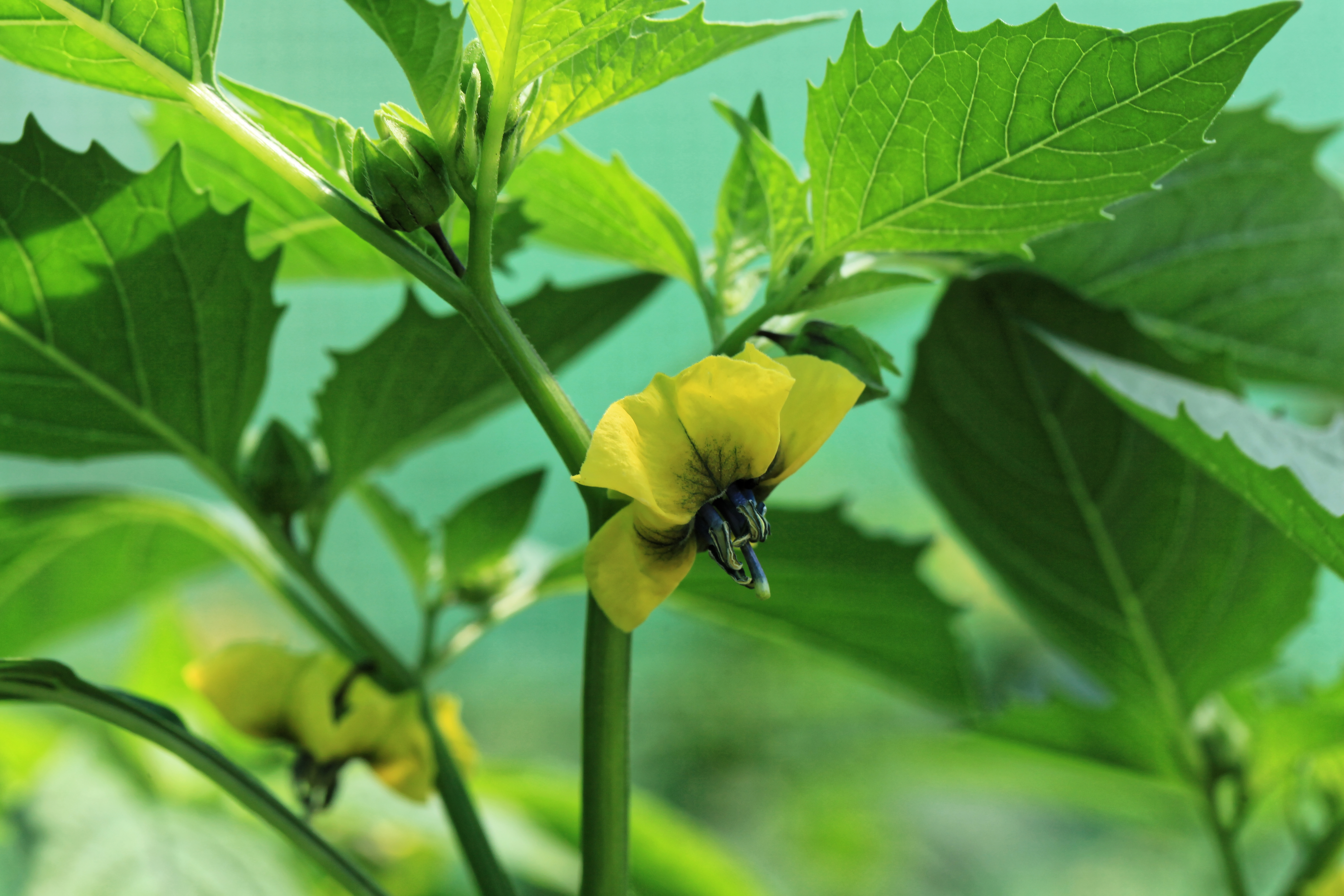 Tomatillo Physalis philadelphica in a garden in Kluse (Emsland)